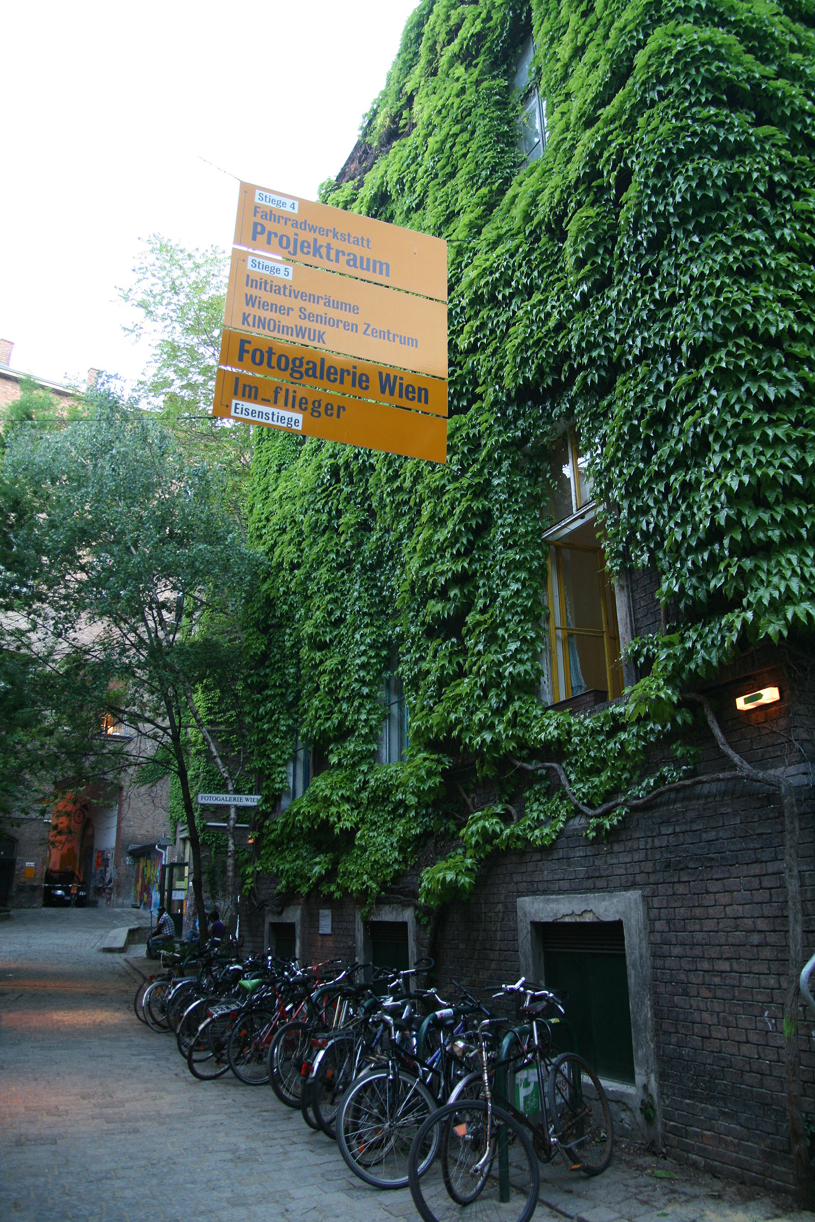 Inside the cultural center WUK in Vienna.